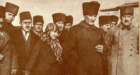 Mustafa Kemal (Atatürk), Latife (Uşşaki) and Kâzım Karabekir in Edremit, 9 February 1923.